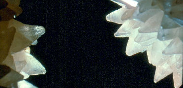 Artistic collage of Calcite spar crystals in Jewel Cave National Monument, South Dakota, USA